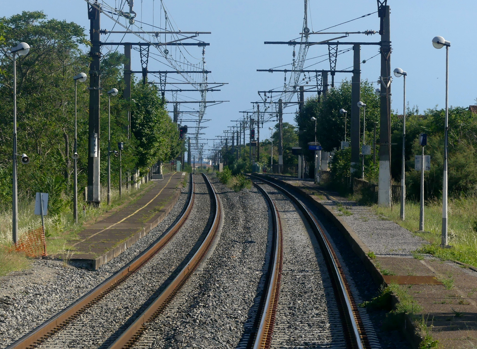 Sight of Frontignan railway station, between Montpellier and Sète, in Hérault, France.